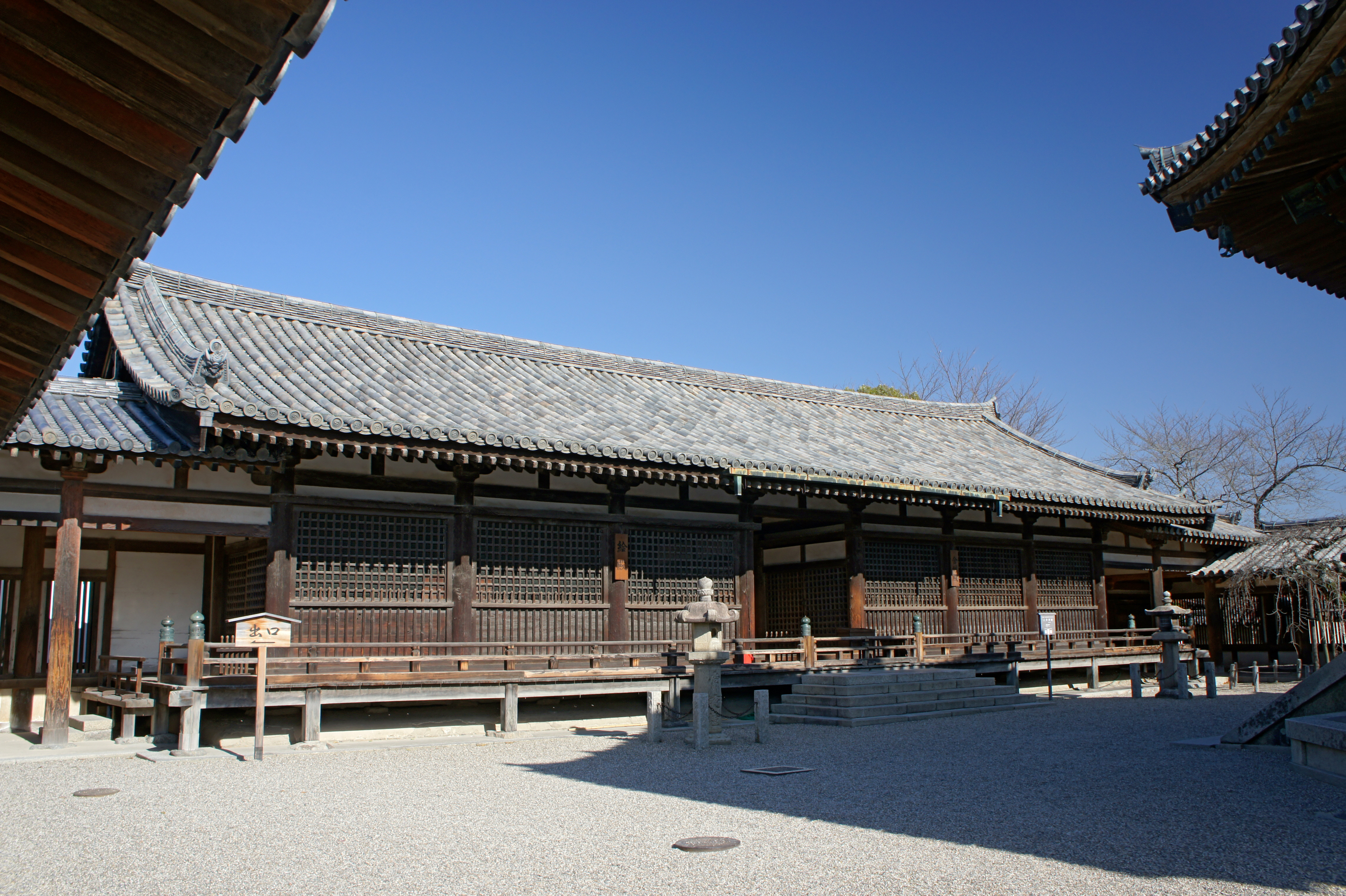 E-den and Shari-den of Hōryū-ji is a Important Cultural Property of Japan. Hōryū-ji is a Buddhist temple in Ikaruga, Nara prefecture, Japan. It was registered as part of the UNESCO World Heritage Site "Buddhist Monuments in the Hōryū-ji Area".